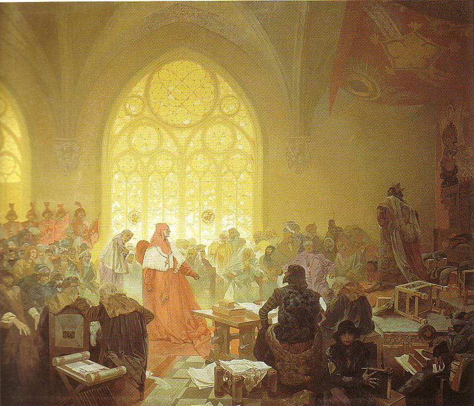 A painting by Alphonse Mucha showing the first Hussite king, George of Podebrady. I found it here.